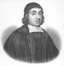 Thomas Watson, the Puritan (traditional print)